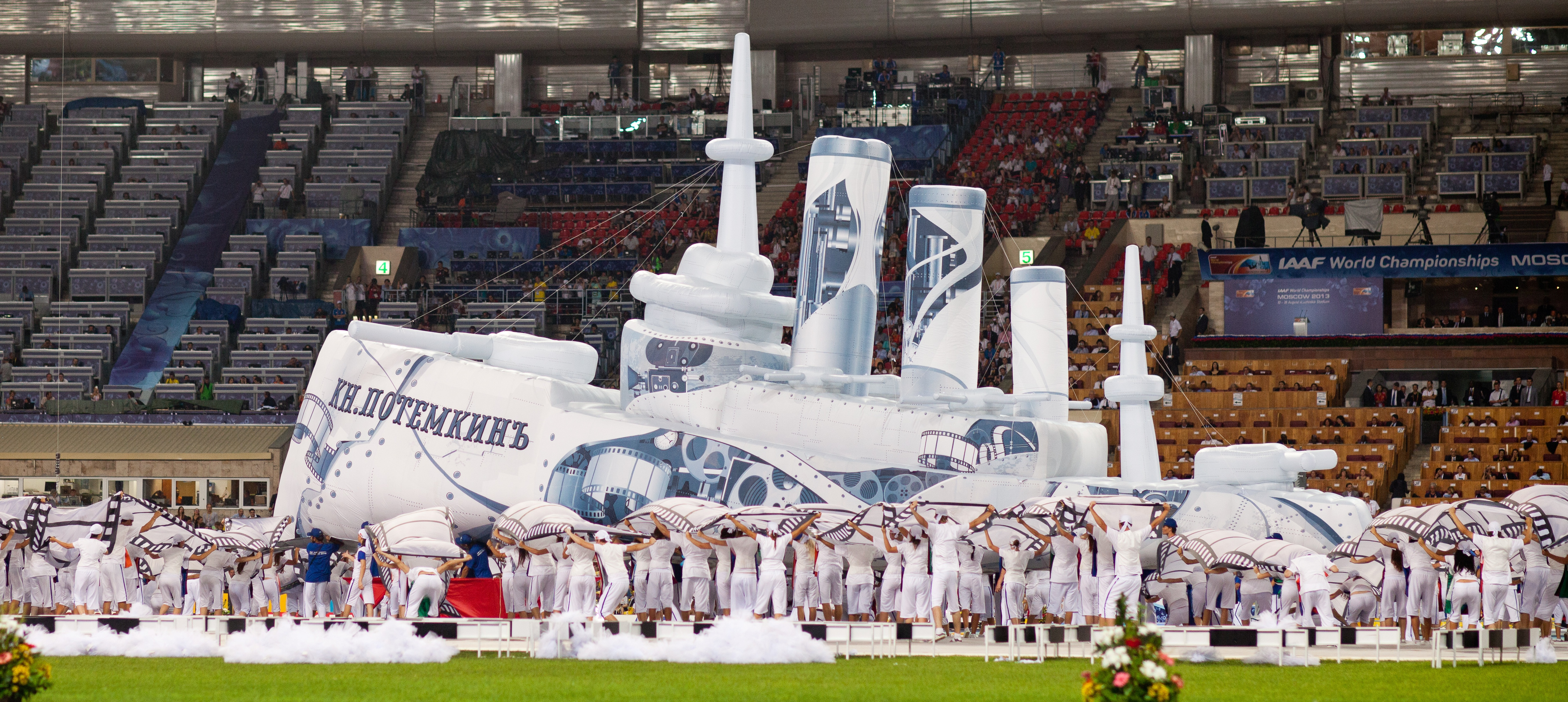 Derived from File:2013 World Championships in Athletics (August, 10) by Dmitry Rozhkov 101.jpg